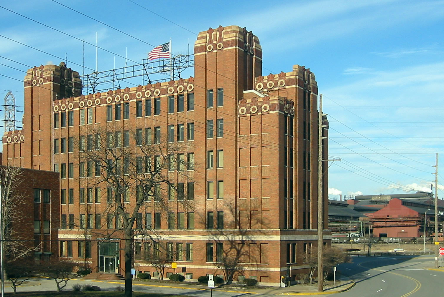 Industrial Gothic in East Chicago, Ind. Inland Steel Co. Main Office Building - built in 1930.